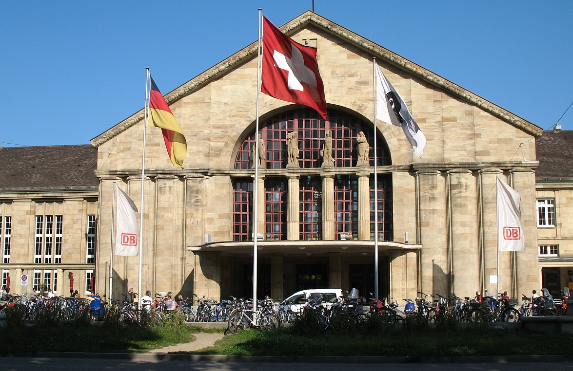 Front view of Basel Badischer Bahnhof (Basel Bad Bf), in Basel, Switzerland